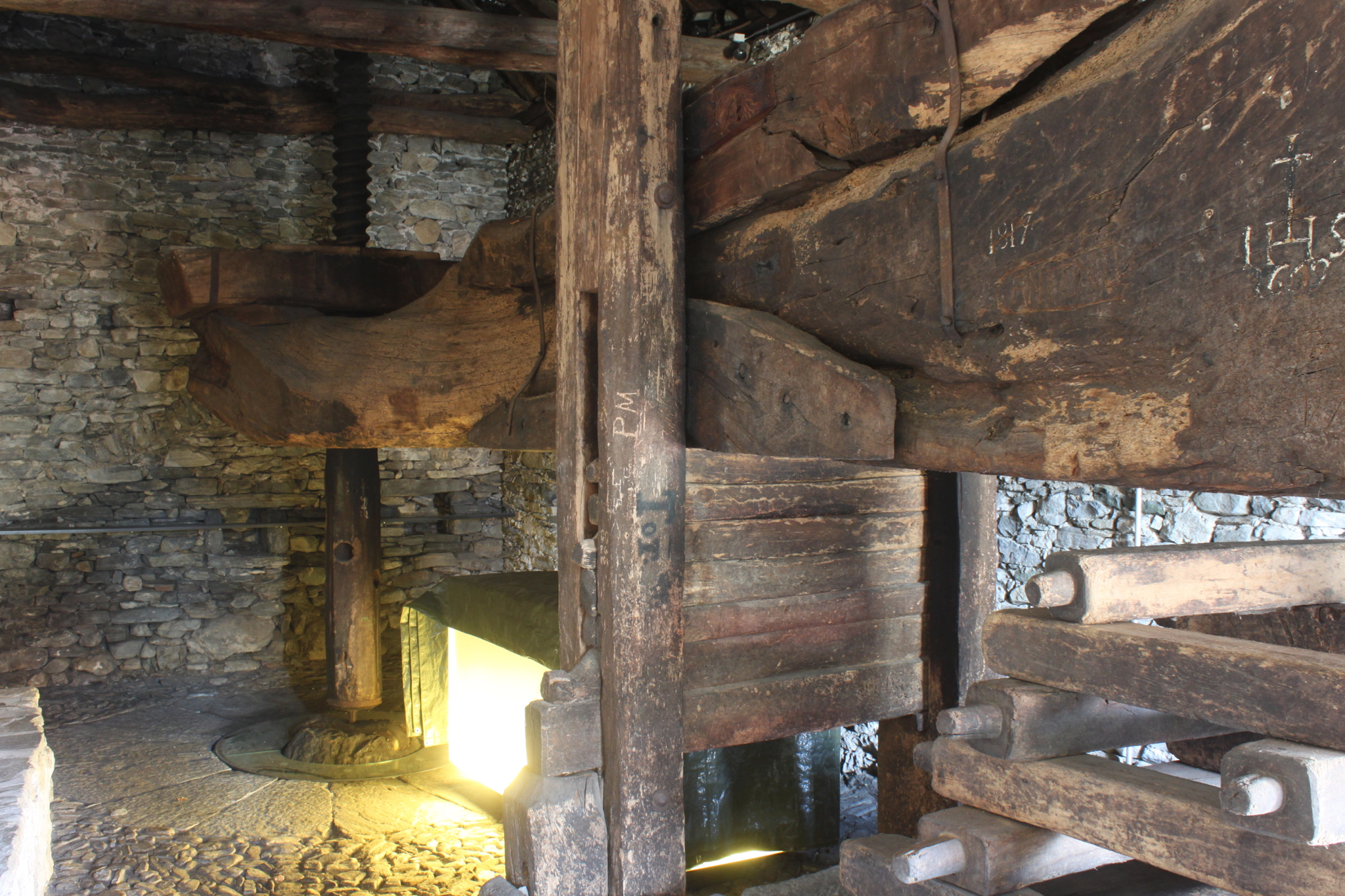 Municipal wine press in Cavigliano.